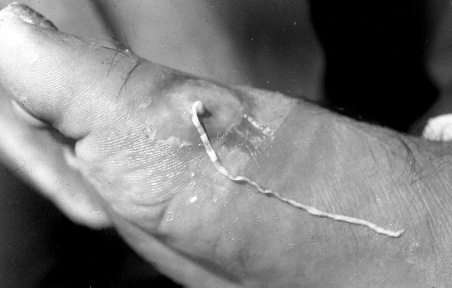 Dracunculus medinensis (Guinea worm), dracunculiasis. The stick has been removed and larvae have been squeezed from the flattened exterior portion of the worm. Transcribed from page 401 of .MIS67-1563-3; MIS67-1563-3